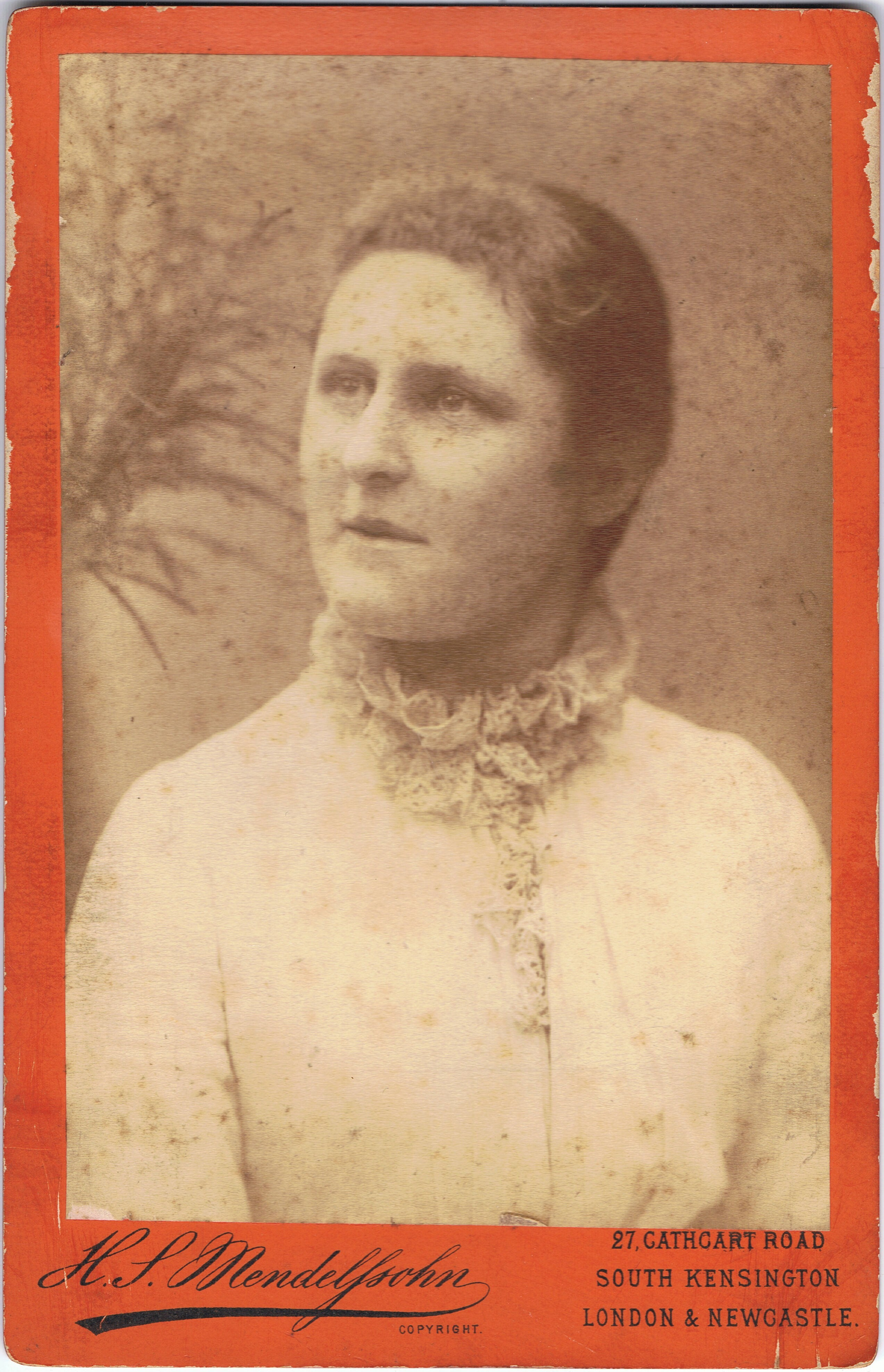 Georgiana De Salis, wife to Rev. R. Hamilton. Scan (R. de Salis, Oct. 2007) of c1881 photo. Rodolph 17:58, 19 October 2007 (UTC)